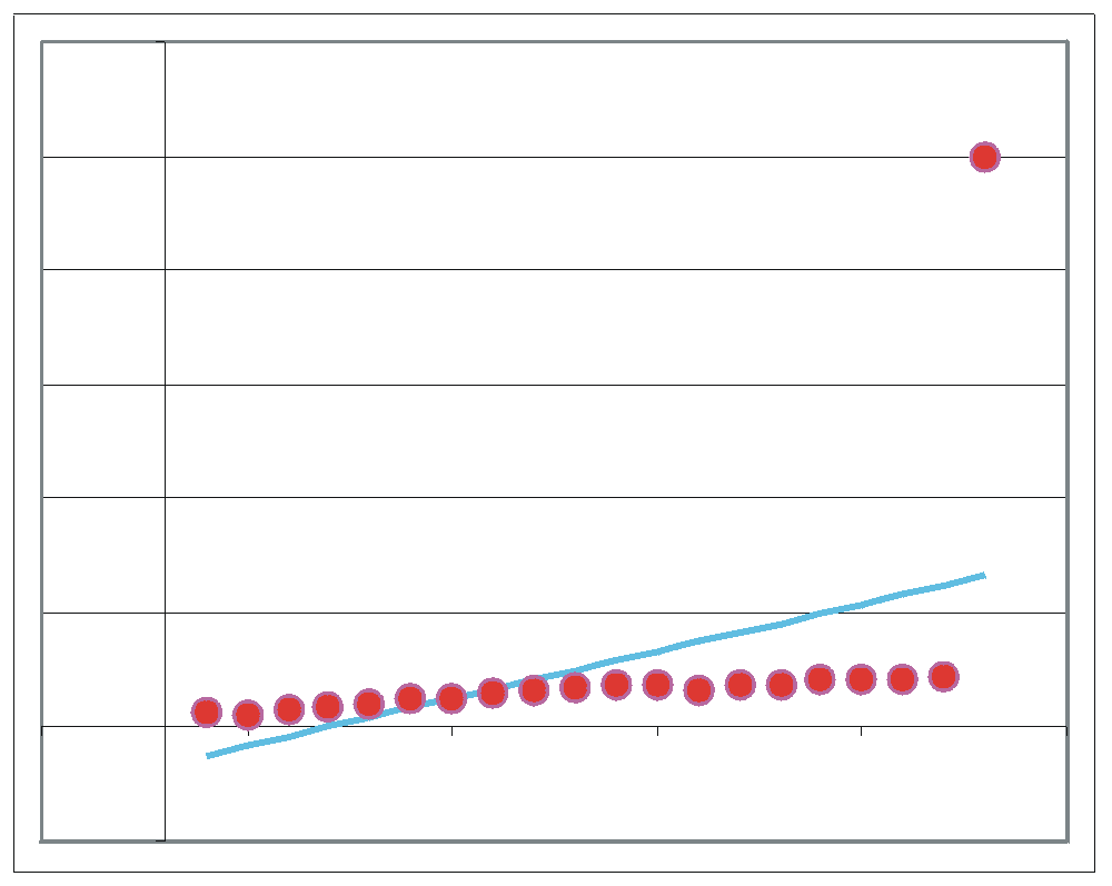 Outlier value in statistics.